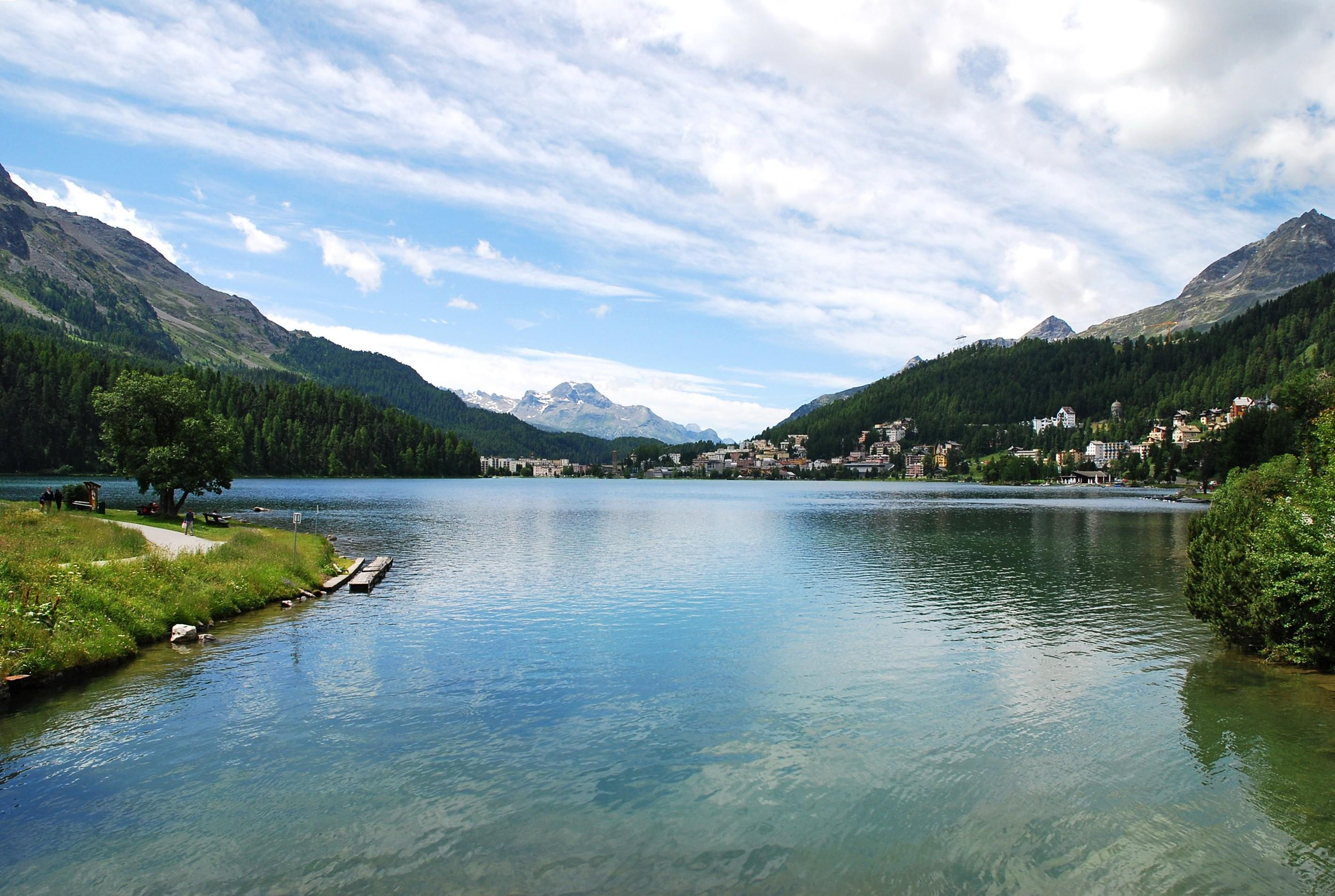 Lake St. Moritz Rumantsch: Lej da San Murezzan